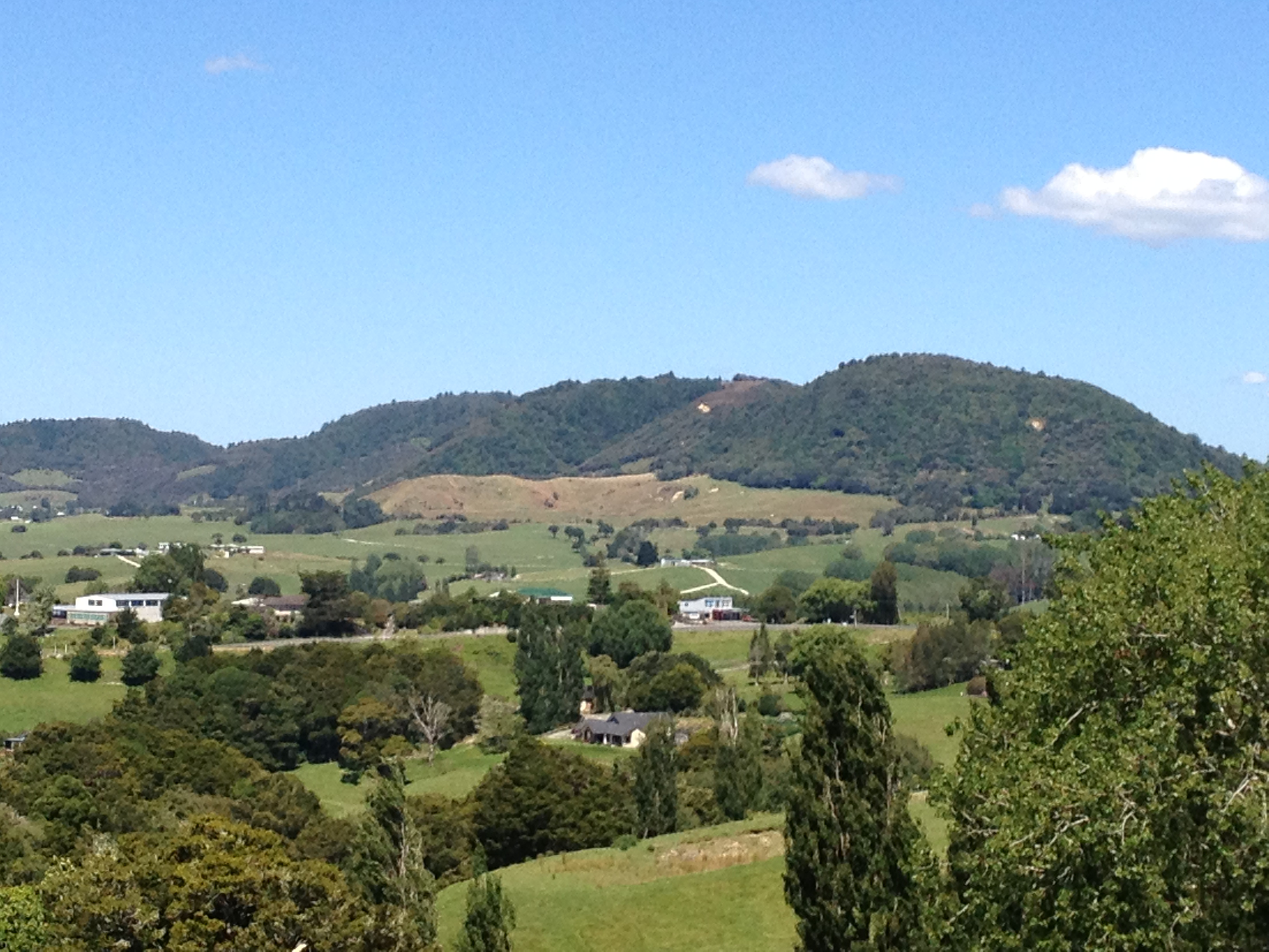 Beautiful views from the Hills of Maungaturoto